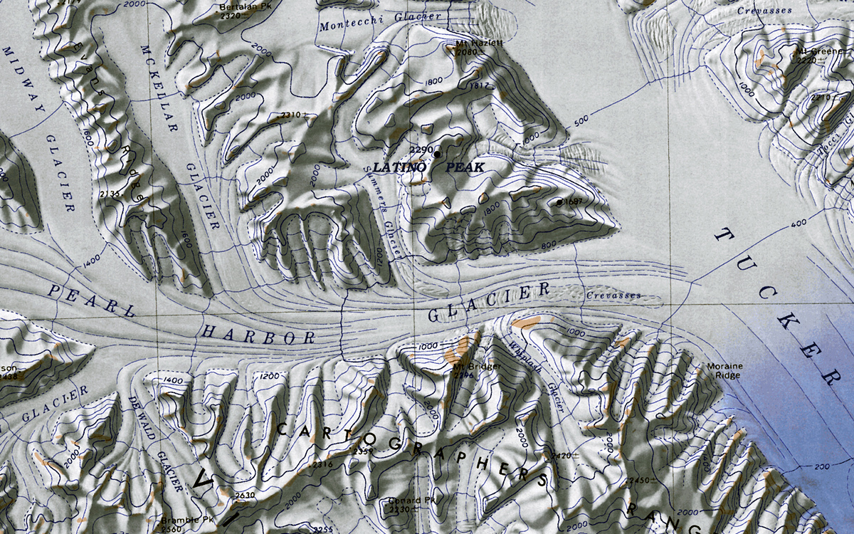 Map of Antarctica by the United States Antarctic Resource Center of the US Geological Society.